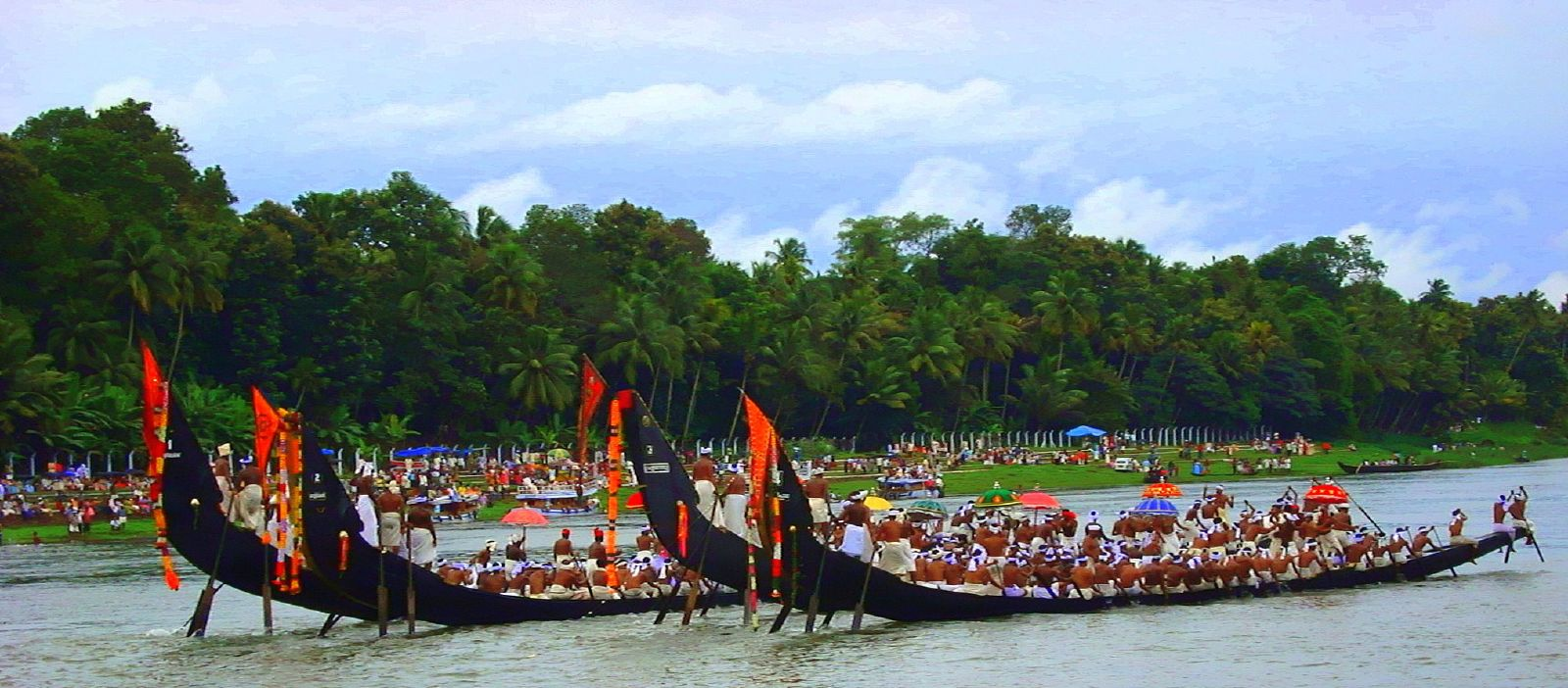 The Aranmula Boat Race, held during Onam (August-September), takes place at Aranmula, India near a temple dedicated to Lord Krishna and Arjuna. Thousands of people gather on the banks of the river Pampa to watch the snake boat races. Nearly 30 snake boats or "chundan vallams" participate in the festival. The oarsmen sing traditional boat songs and wear white dhotis and turbans. The golden lace at the head of the boat, the flag and the ornamental umbrella at the center make it a show of pageantry too. Each snake boat belongs to a village along the banks of the river Pampa. Every year the boats are oiled mainly with fish oil, coconut shell, and carbon, mixed with eggs to keep the wood strong and the boat slippery in the water. The village carpenter carries out annual repairs and people take pride in their boat, which is named after and represents their village.